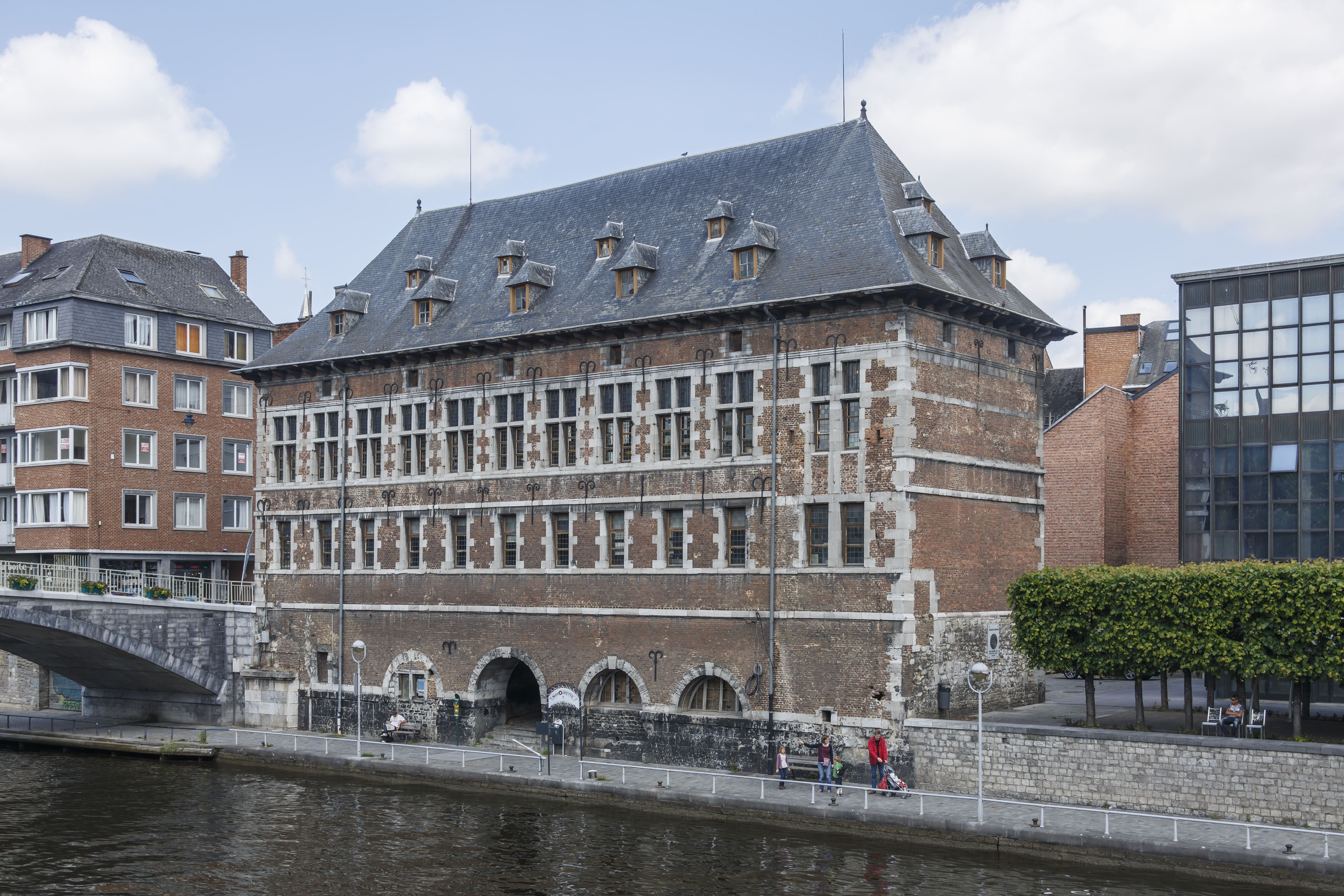 Namur, Belgium: Halle al'Chair.